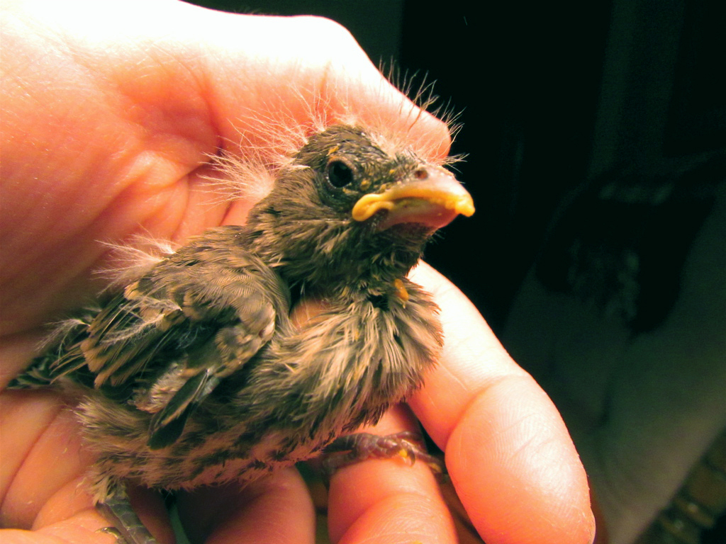 This little birds weighs 18 grams. It started gaping and eating off the feeder for me. It has quite an appetite. If you look closely, you can see part of its last meal on its beak. :-) Possibly Carpodacus mexicanus. Dysmorodrepanis (talk) 08:31, 17 September 2011 (UTC)